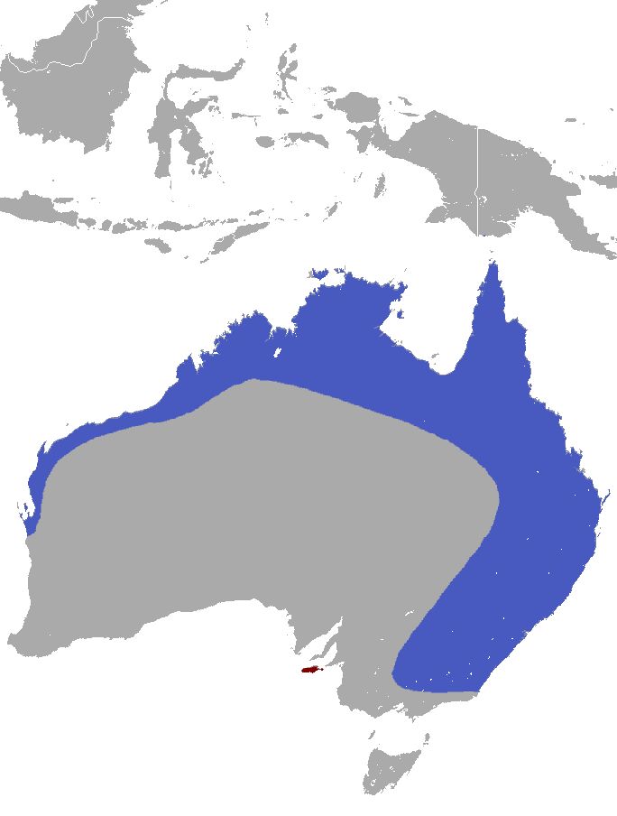 Little Red Flying Fox (Pteropus scapulatus) range (blue — native, brown — vagrant)